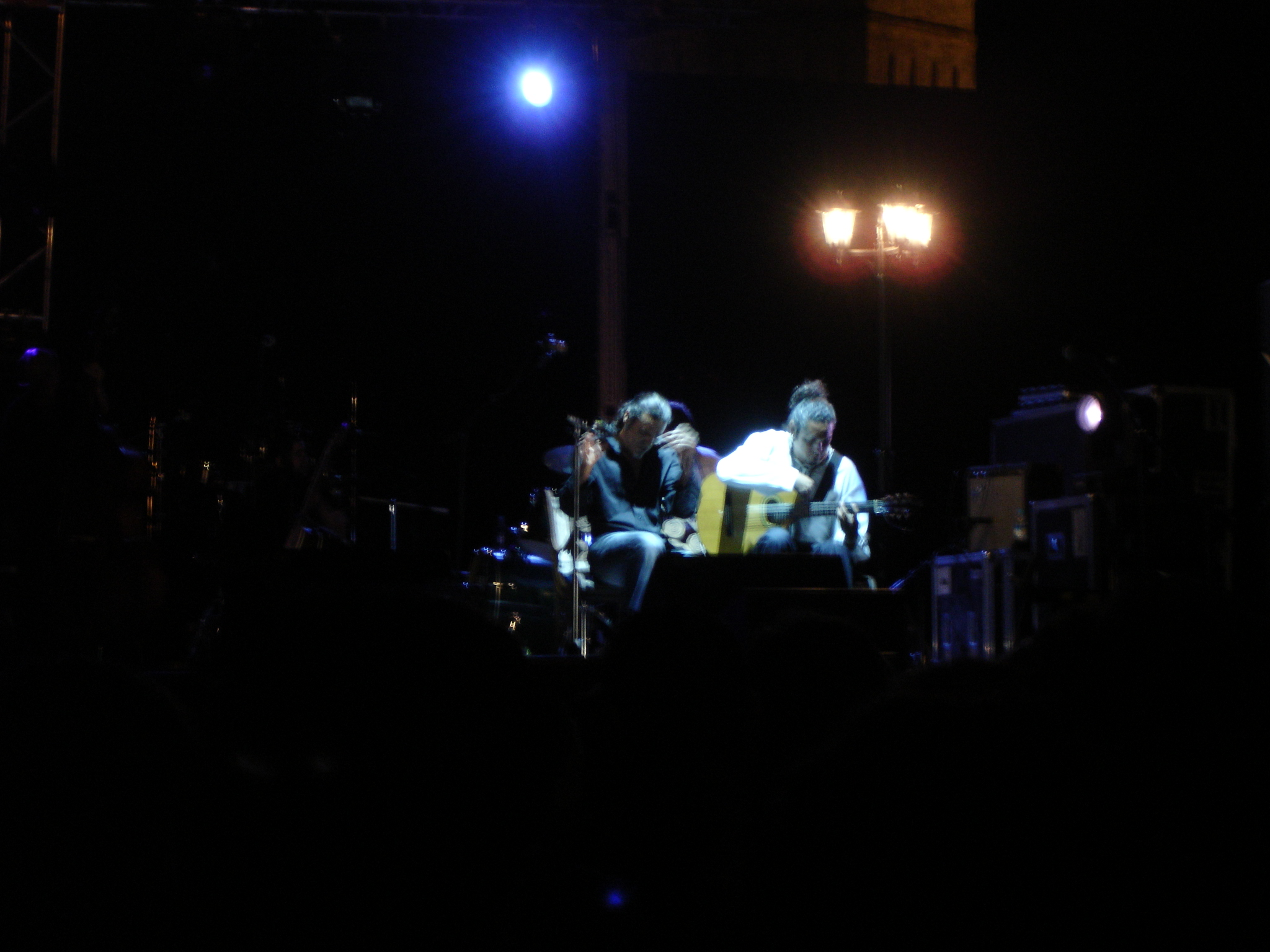 Navajita Plateá in concert in Alcazar of Jerez de la Frontera (Andalusia, Spain)